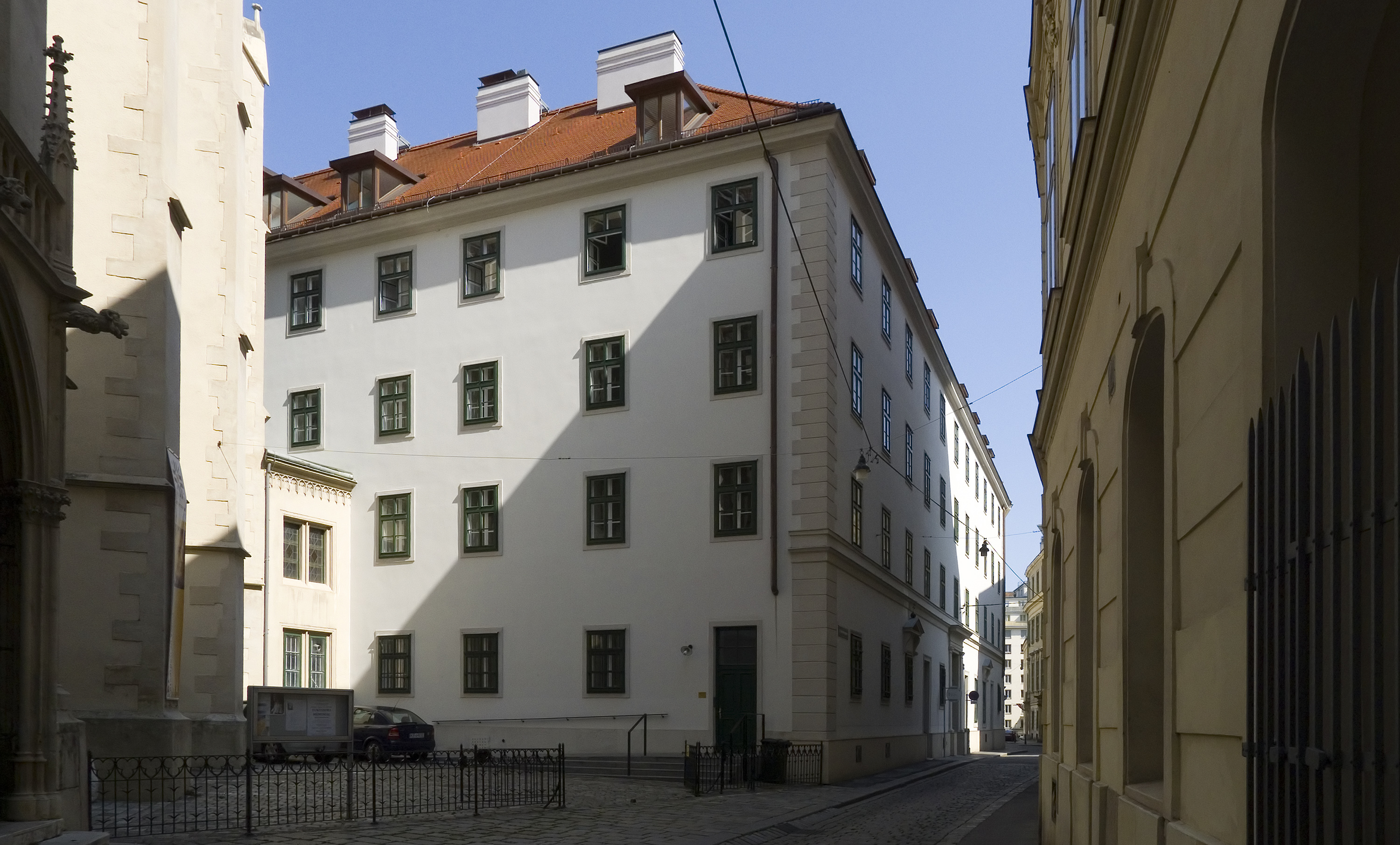 Cloister Kloster Maria am Gestade in Vienna 1